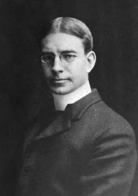 The Rt. Re. Robert Lewis Paddock, first Bishop of the Missionary District of Eastern Oregon. Consecrated December 18, 1907.